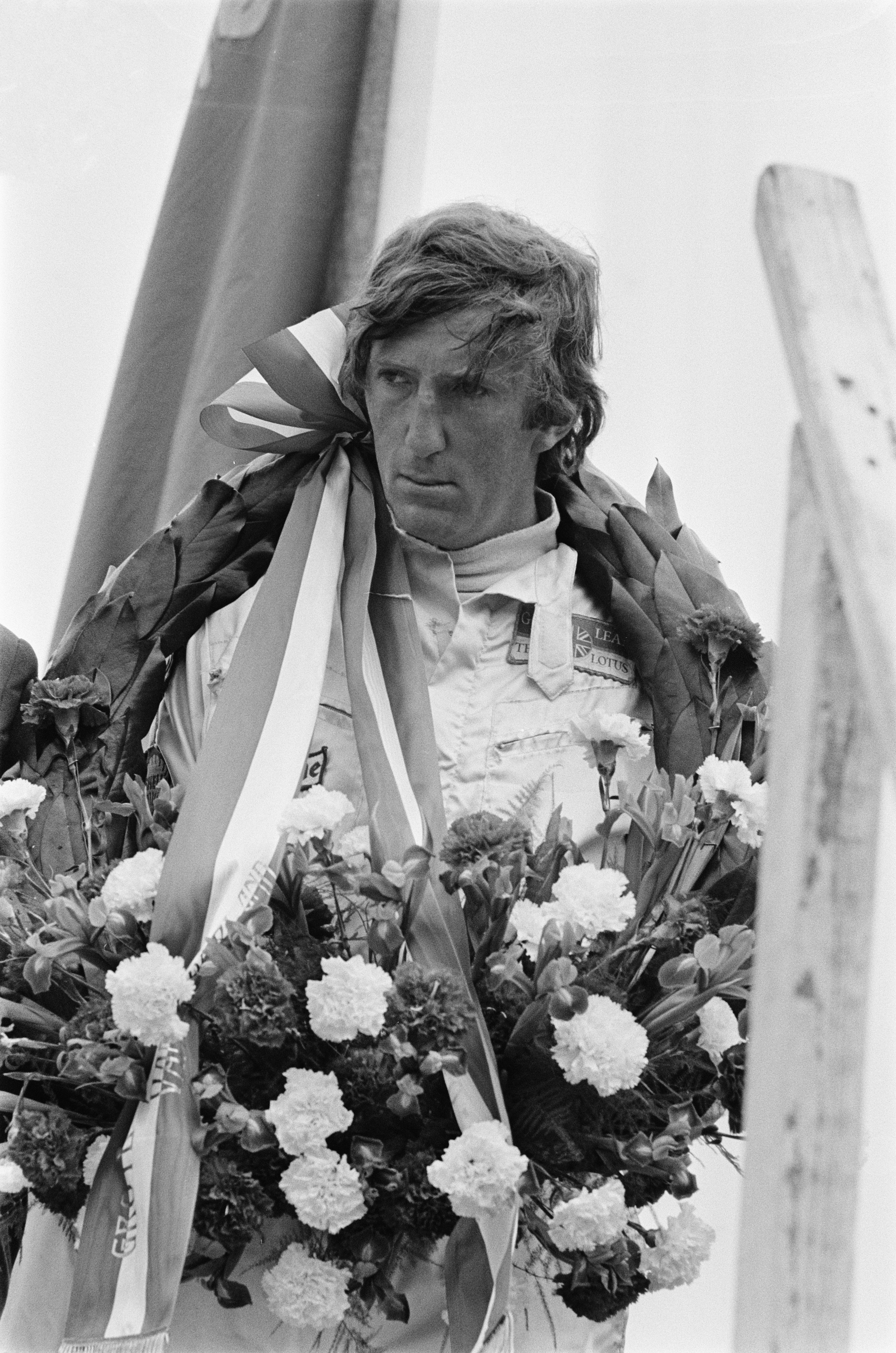 removed visible film damage